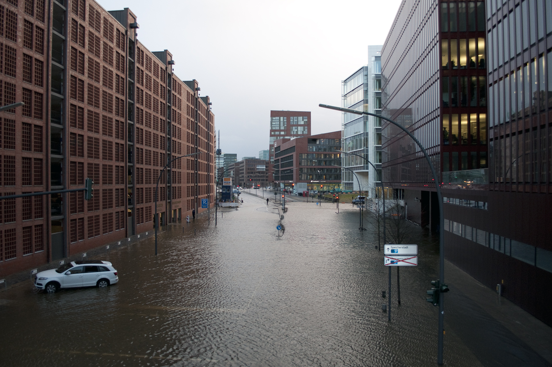 Flood in Hamburg (cyclone Bodil, 2013)